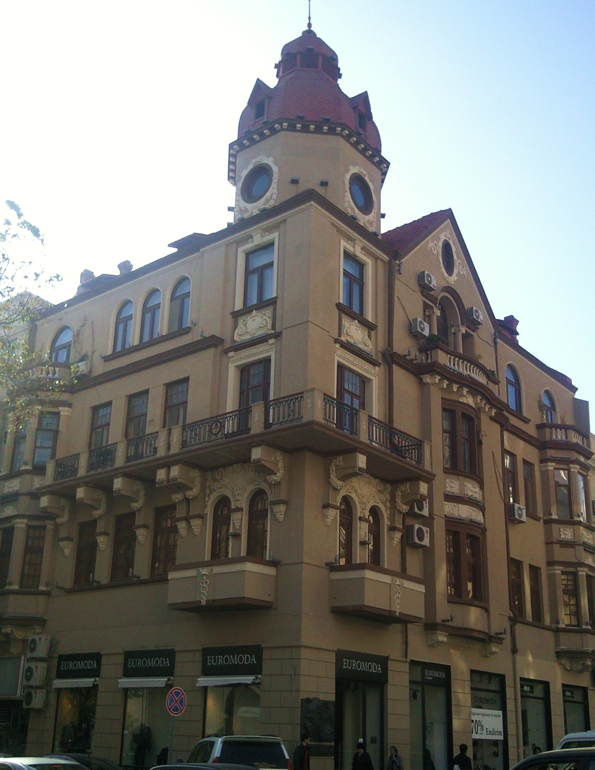 Building at Samed Vurgun street in Baku, where Lev Landau lived till 1924. Built in 1911.